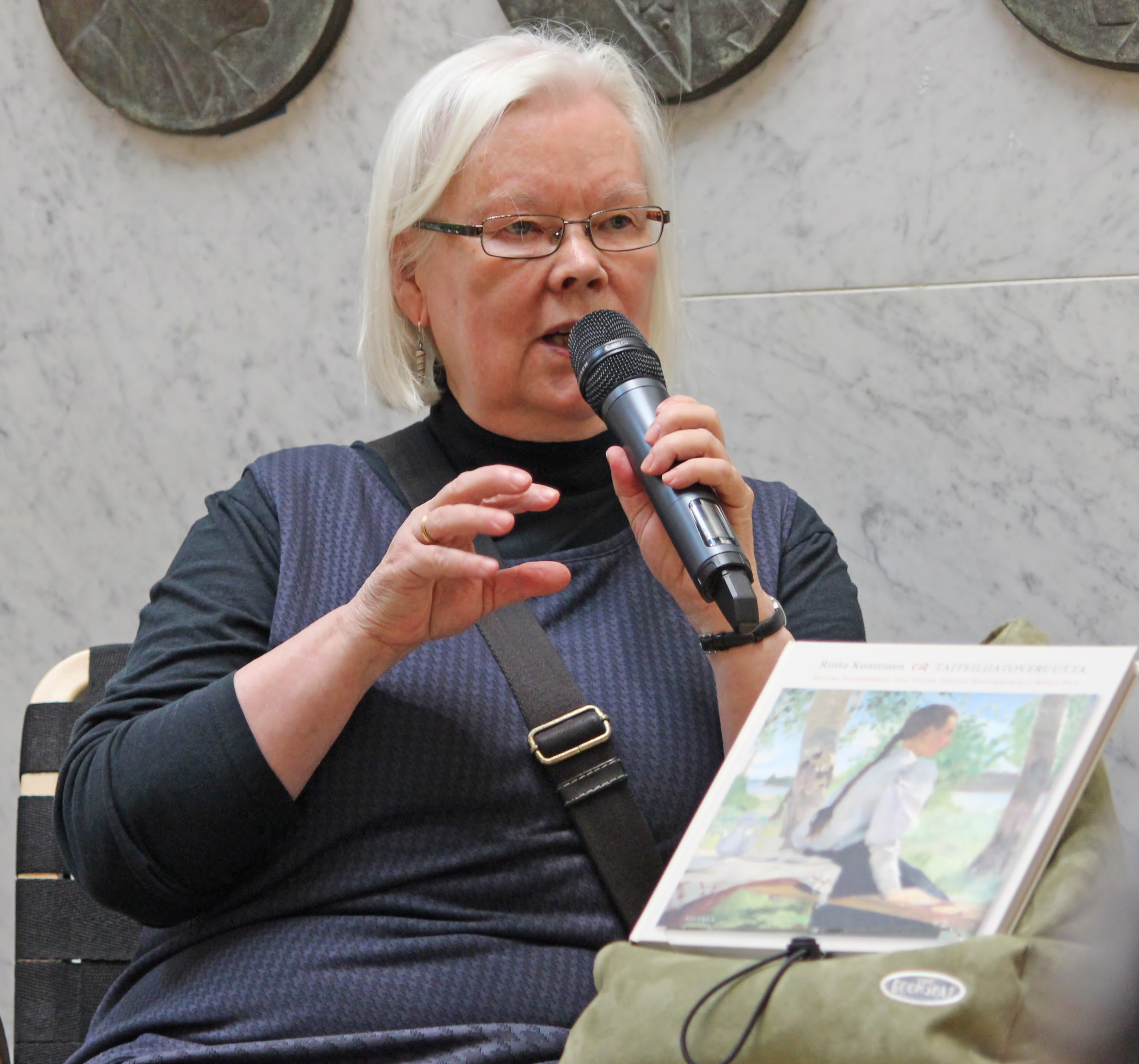 Professor and non-fiction writer Riitta Konttinen on the Night of The Arts in Helsinki 2014